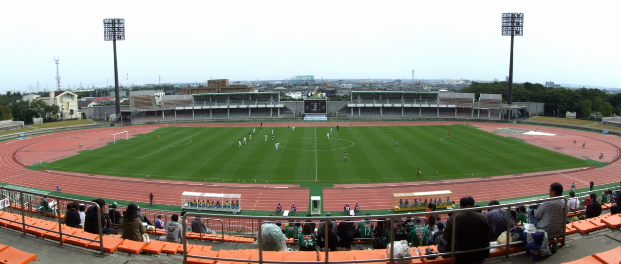 Ichihararyokuchi Sports Park Seaside Stadium